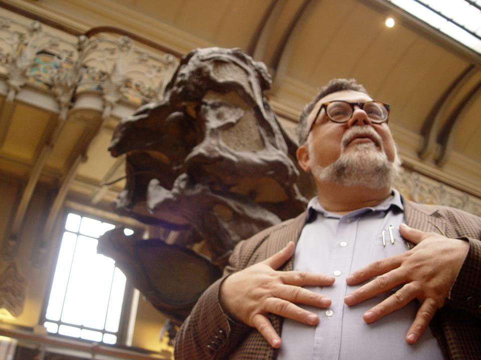 Şengör, while explaining the short arms of Tyrannosaurus rex (at the back) in Musee d'Histoire Naturelle, Paris (2005).